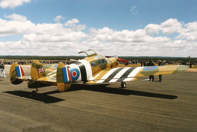 A surviving Miles Messenger at an airshow in Australia in 1998, painted to represent a Messenger used by General Montgomery in World War II. As of 2011 the aircraft is airworthy in New Zealand as ZK-CMM. Image scanned from a 6"x4" photograph of VH-ZZM taken by YSSYguy at HMAS Albatross, Nowra, New South Wales on 1 November 1998.